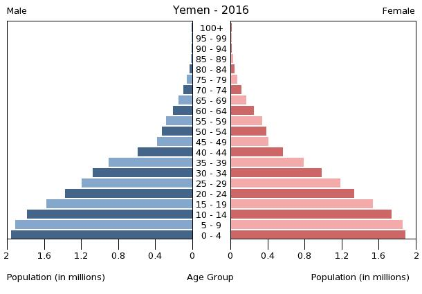 The population pyramid of Yemen illustrates the age and sex structure of population and may provide insights about political and social stability, as well as economic development. The population is distributed along the horizontal axis, with males shown on the left and females on the right. The male and female populations are broken down into 5-year age groups represented as horizontal bars along the vertical axis, with the youngest age groups at the bottom and the oldest at the top. The shape of the population pyramid gradually evolves over time based on fertility, mortality, and international migration trends.